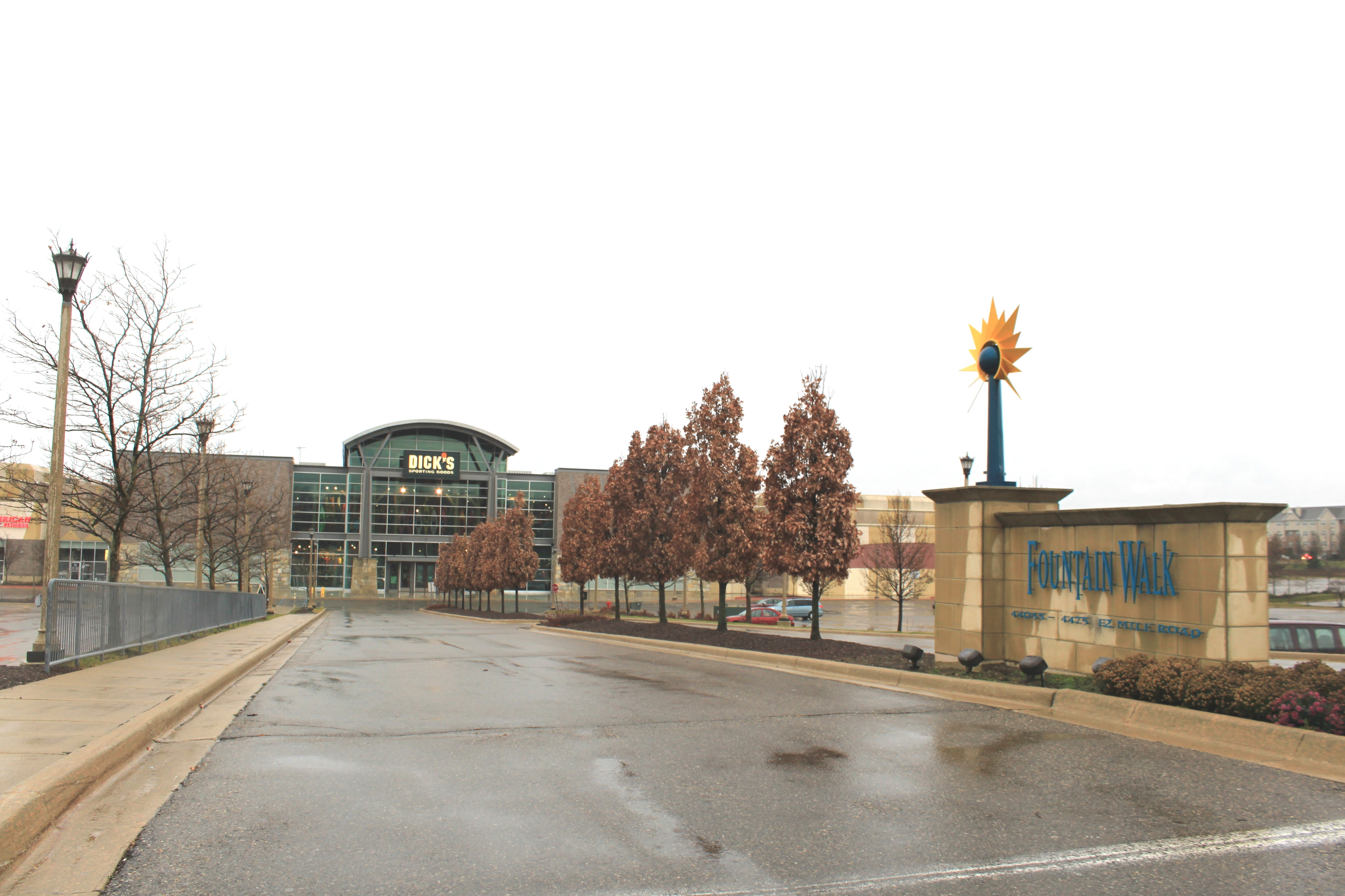 Entrance to Twelve Mile Crossing at Fountain Walk Shopping Center, 44175 West Twelve Mile Road, Novi, Michigan.